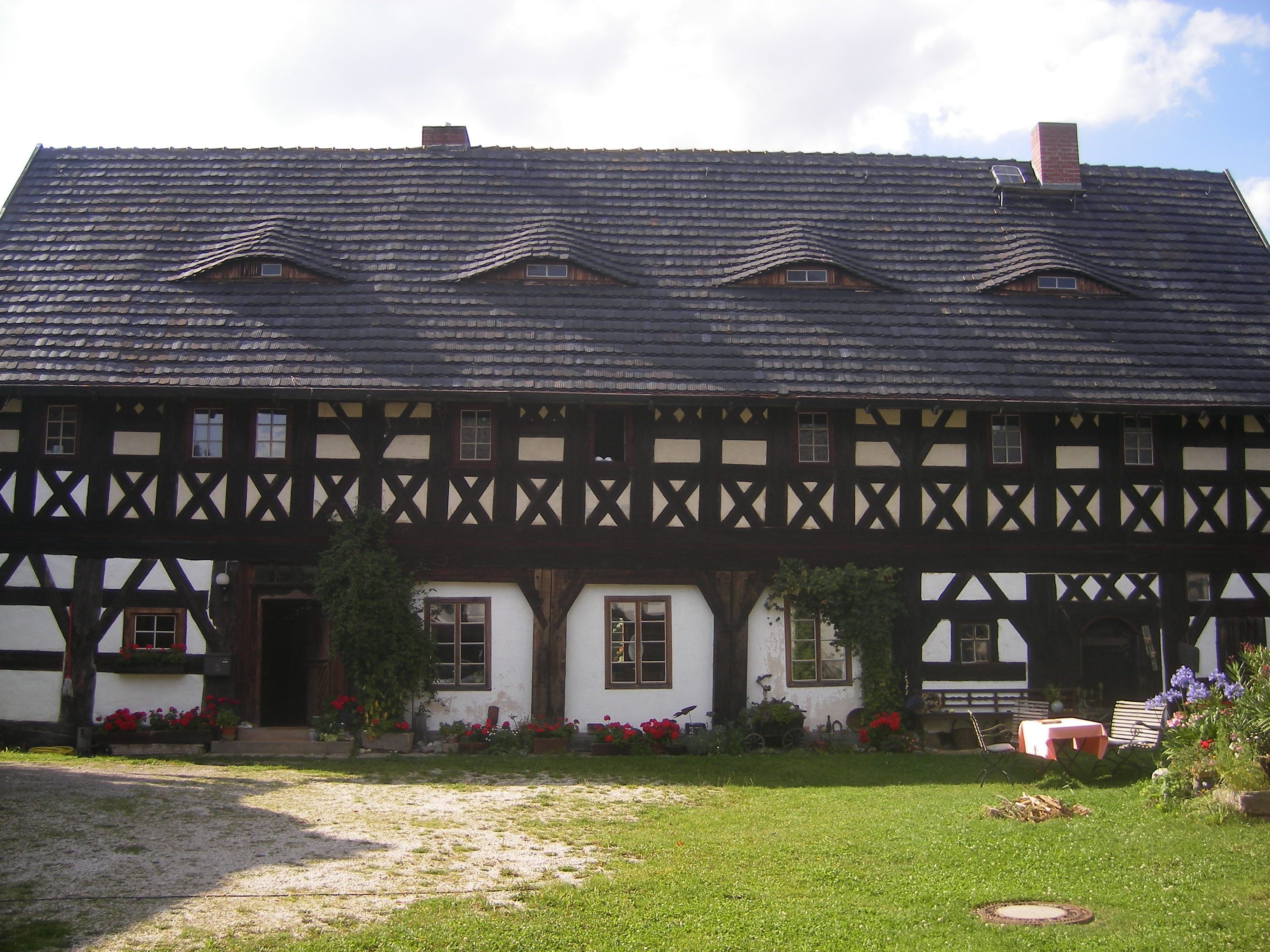 Timber framing house in Jonaswalde near Gera/Thuringia